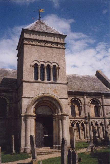 Tickencote Church. St Peter's Church is Norman, with a broad flattened chancel arch (Pevsner wrote that the decoration was wildly overdone). Also there are rare Norman bosses in the vaulting, and remarkable decoration of the external walls by interlacing arches. The church was ruined by the 18C, and was restored and altered in 1792. The porch tower was added at that time.